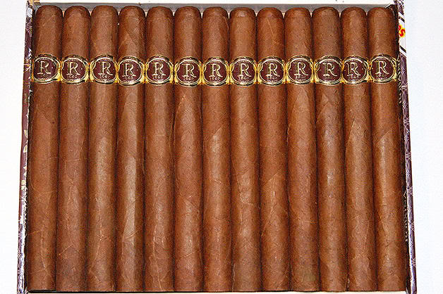 Box of Vegas Robaina Don Alejandros